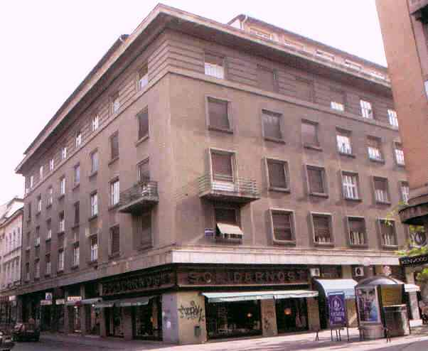 Edo Šen- House Vasić, Varšavska street 6, Zagreb